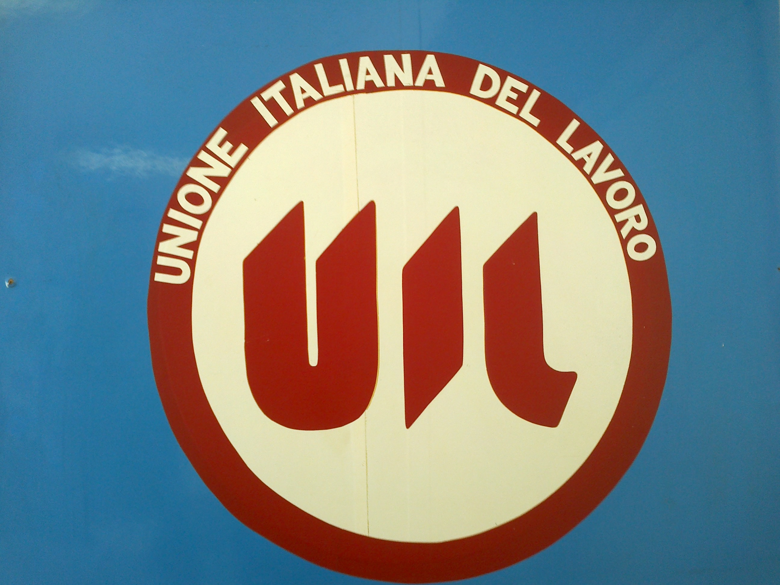 Old UIL emblem used till the late 1980s